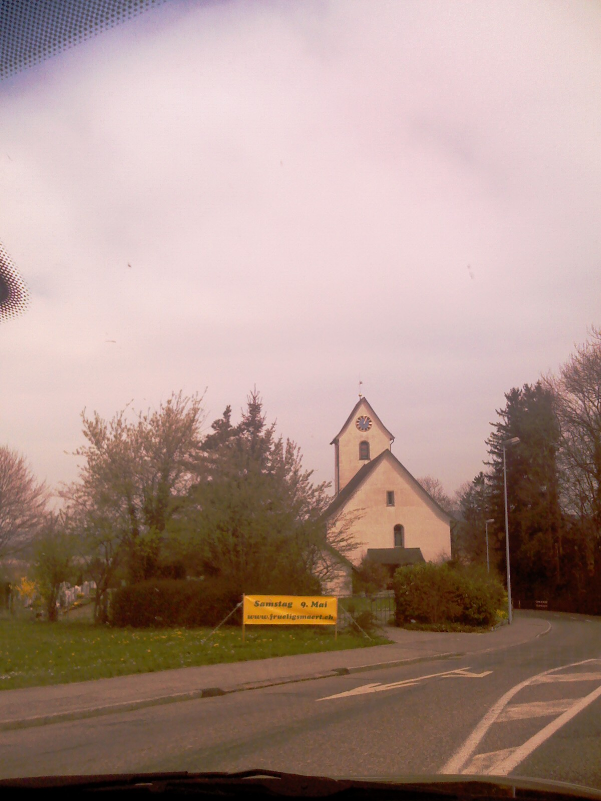 Church of Flaach, Canton Zürich, SwitzerlandEsperanto: Preĝejo de Flaach, Kantono Zuriko, Svislando